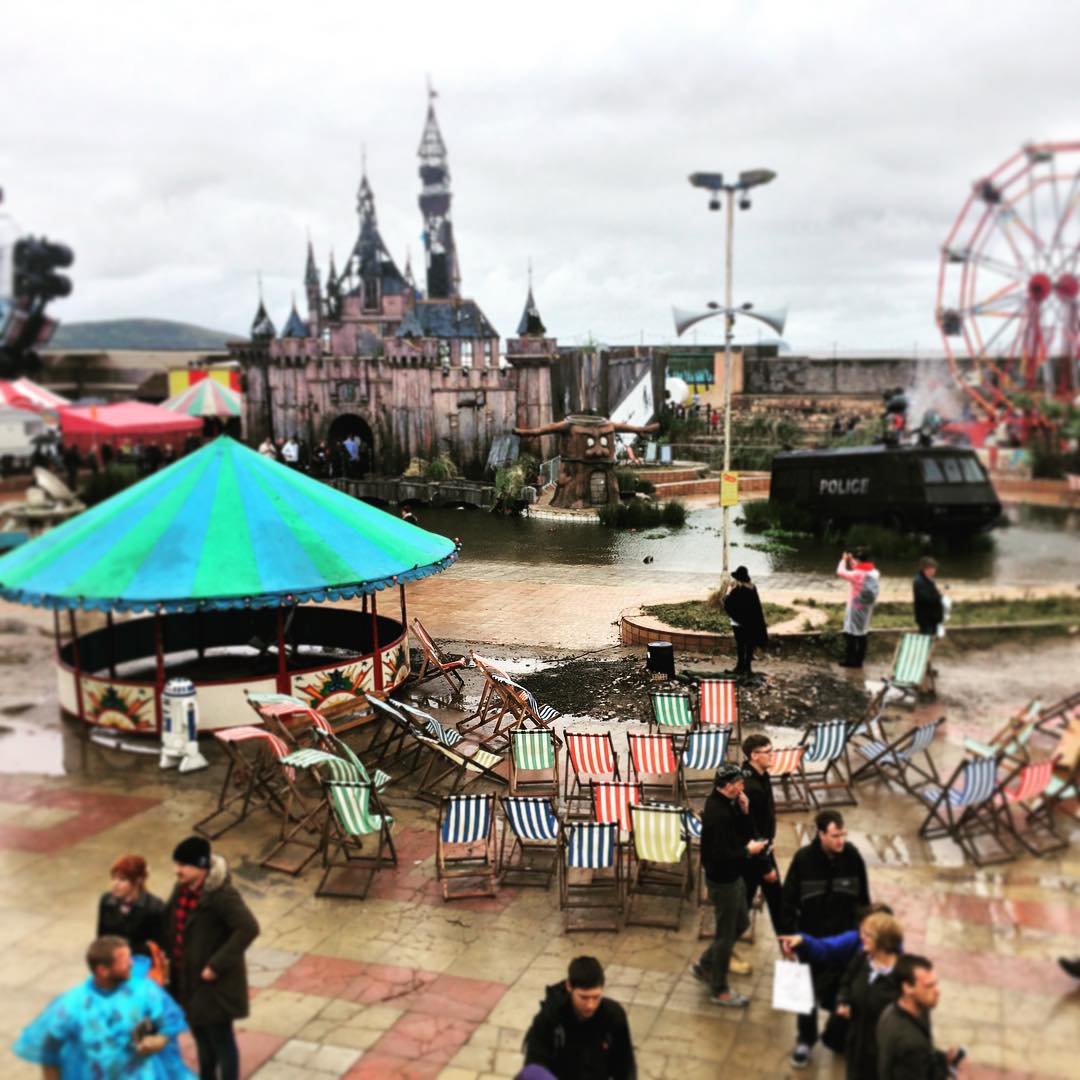 Dismaland